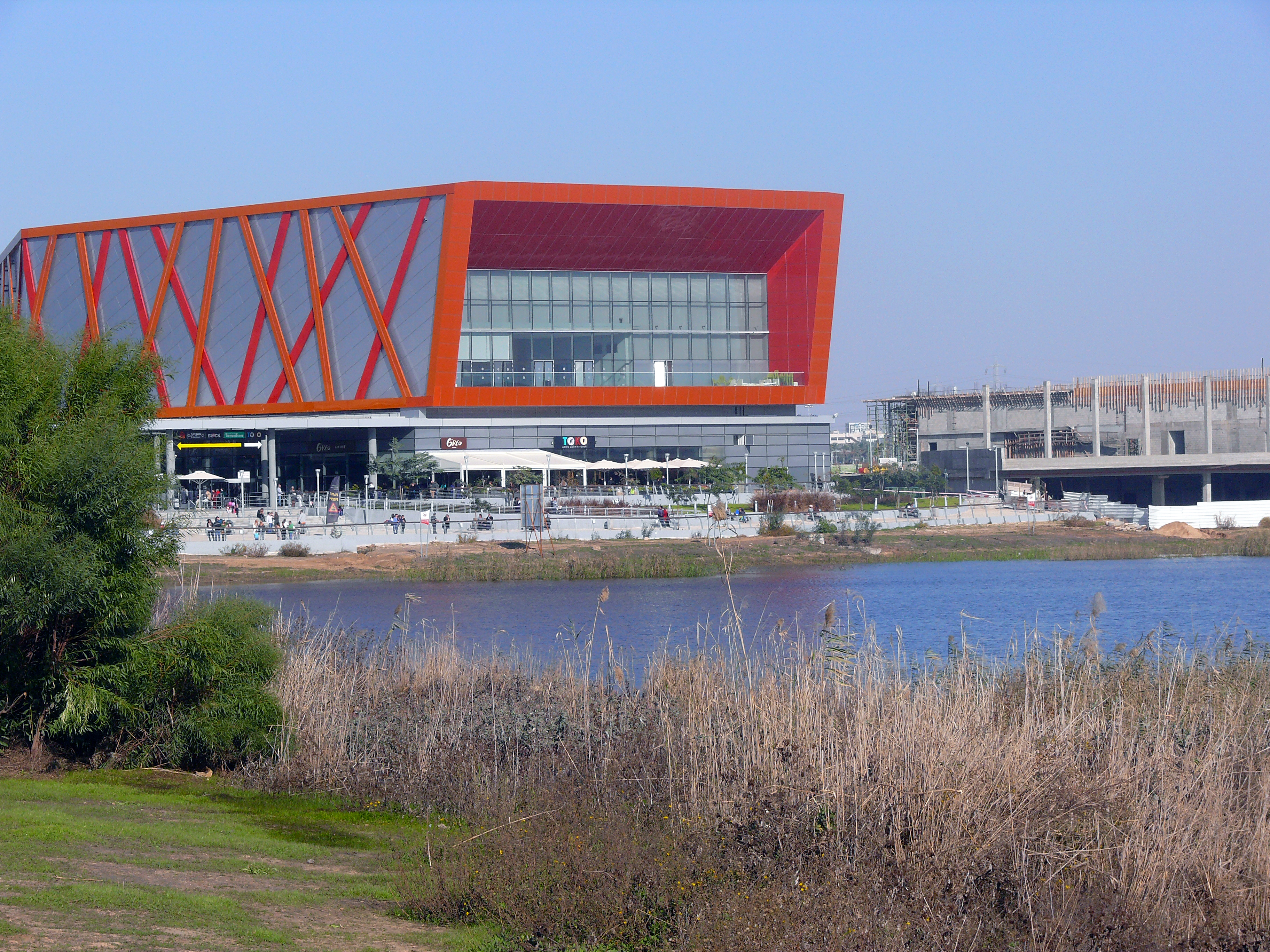 Yes Plant cinema, Rishon LeZion Lake, Rishon LeZion, Israel